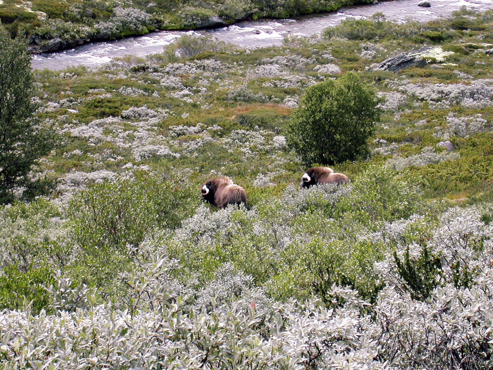 Muskoxes in Dovrefjell, Norway.